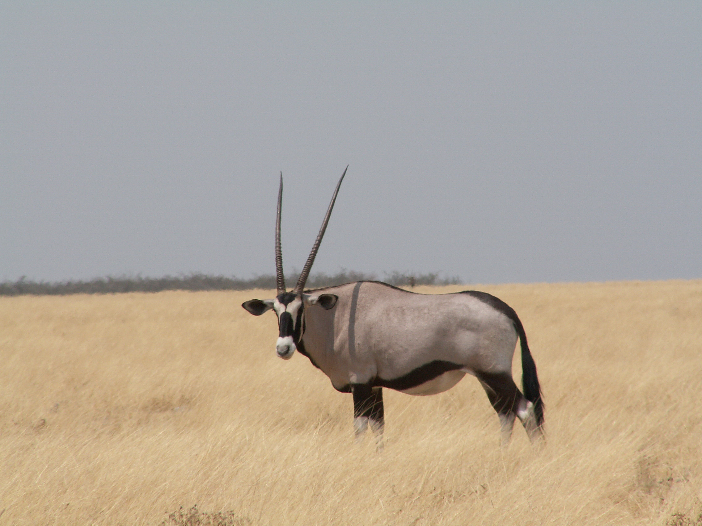 Gemsbok or Gemsbuck or Oryx-Antelope, Oryx gazella, Etoscha National park, Namibia